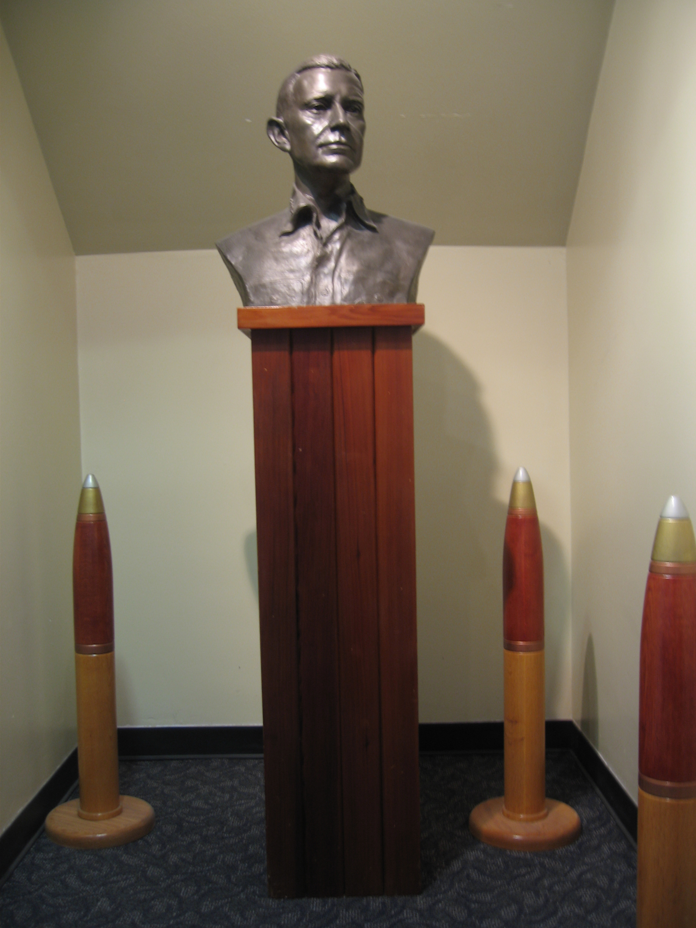 Bust of Admiral Raymond A. Spruance located in Spruance Hall at the Naval War College, Naval Station Newport, Rhode Island.